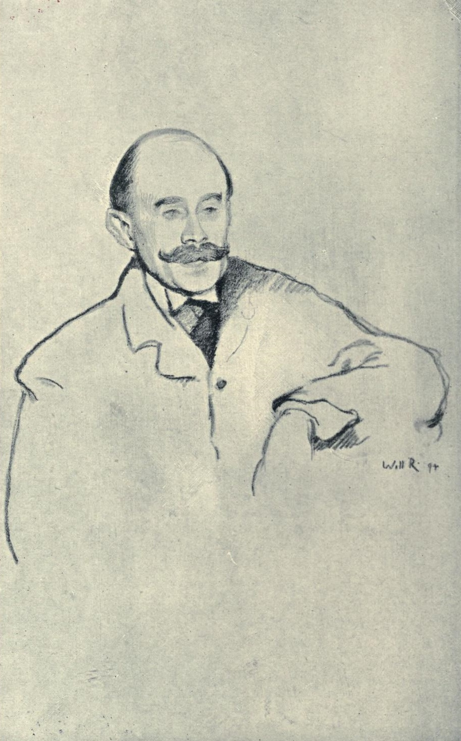 Portrait of Walter Pater